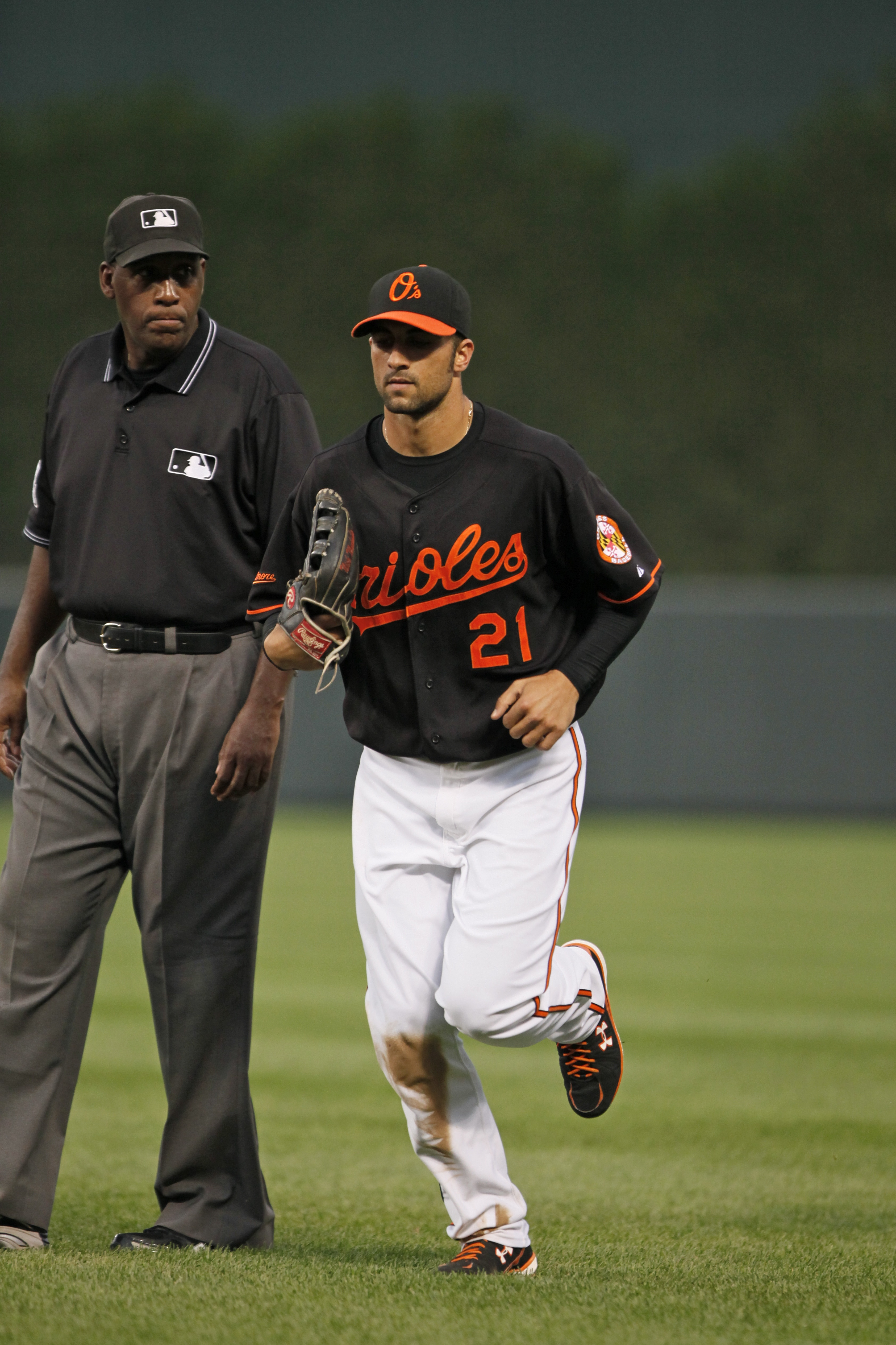 MLB umpire Chuck Meriwether with Orioles player Nick Markakis.